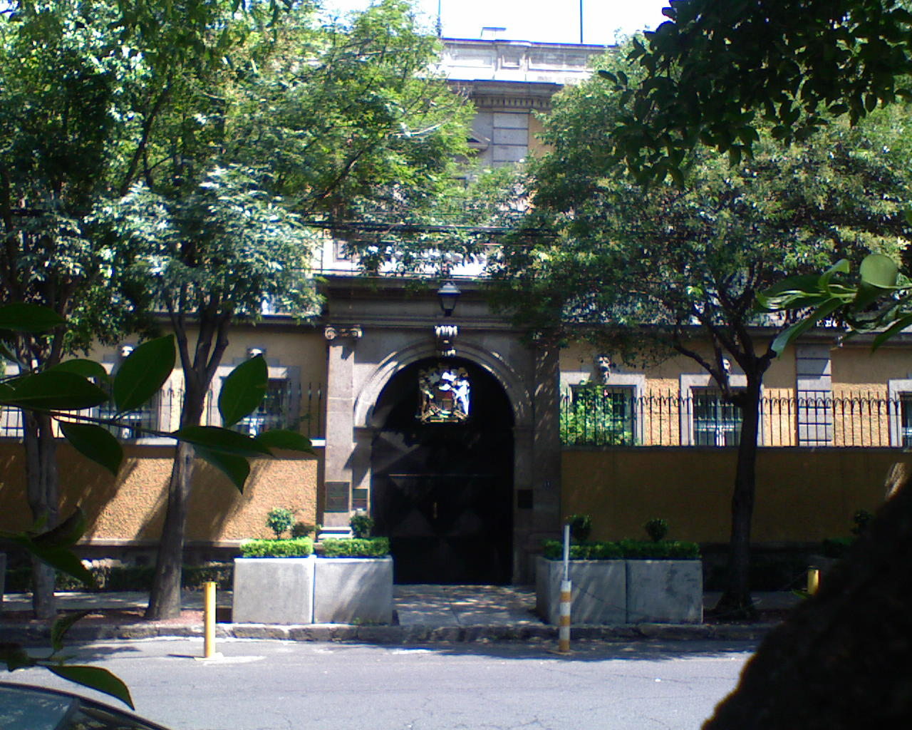 British Embassy in Mexico City